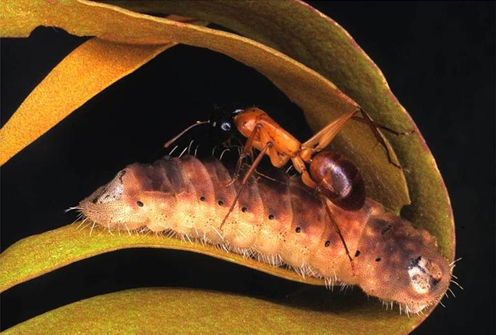 Orgyris genoveva caterpillar with attendant sugar ant (Camponotus consobrinus)